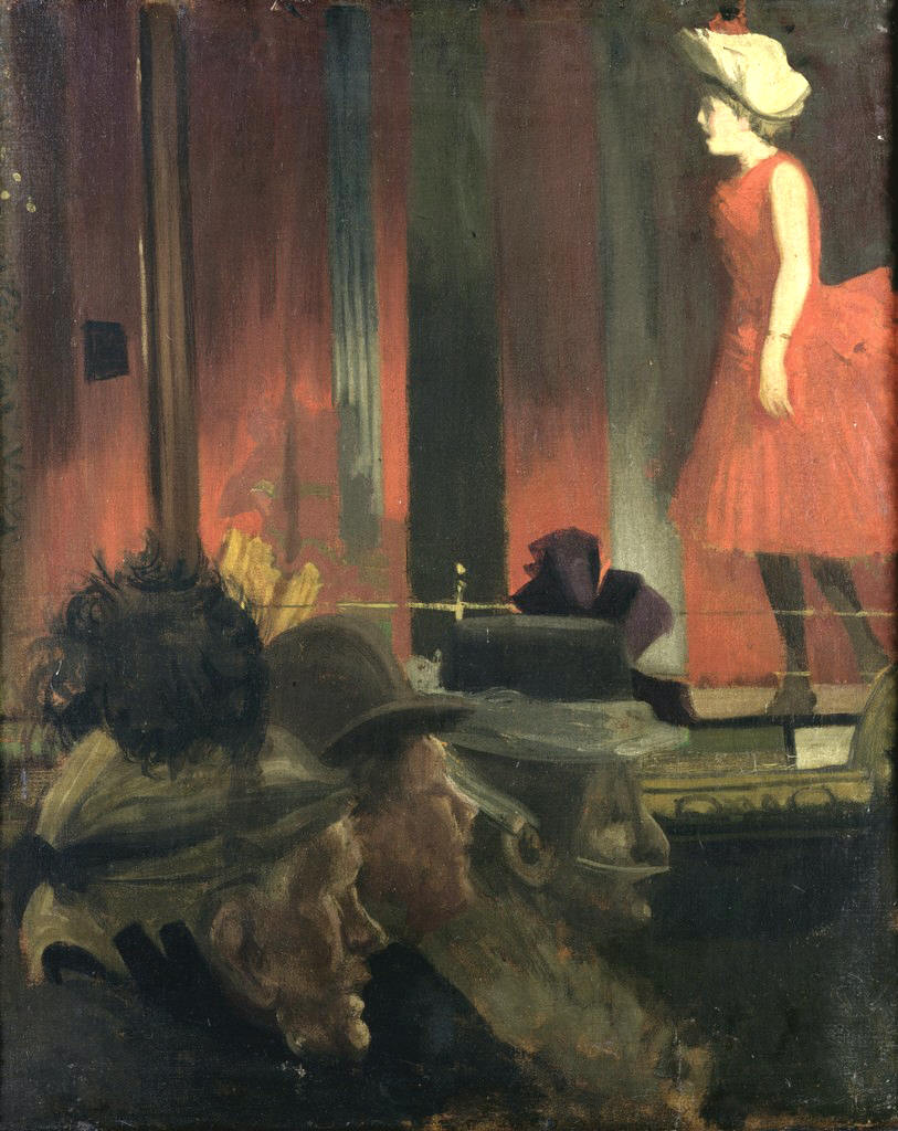 Walter Richard Sickert